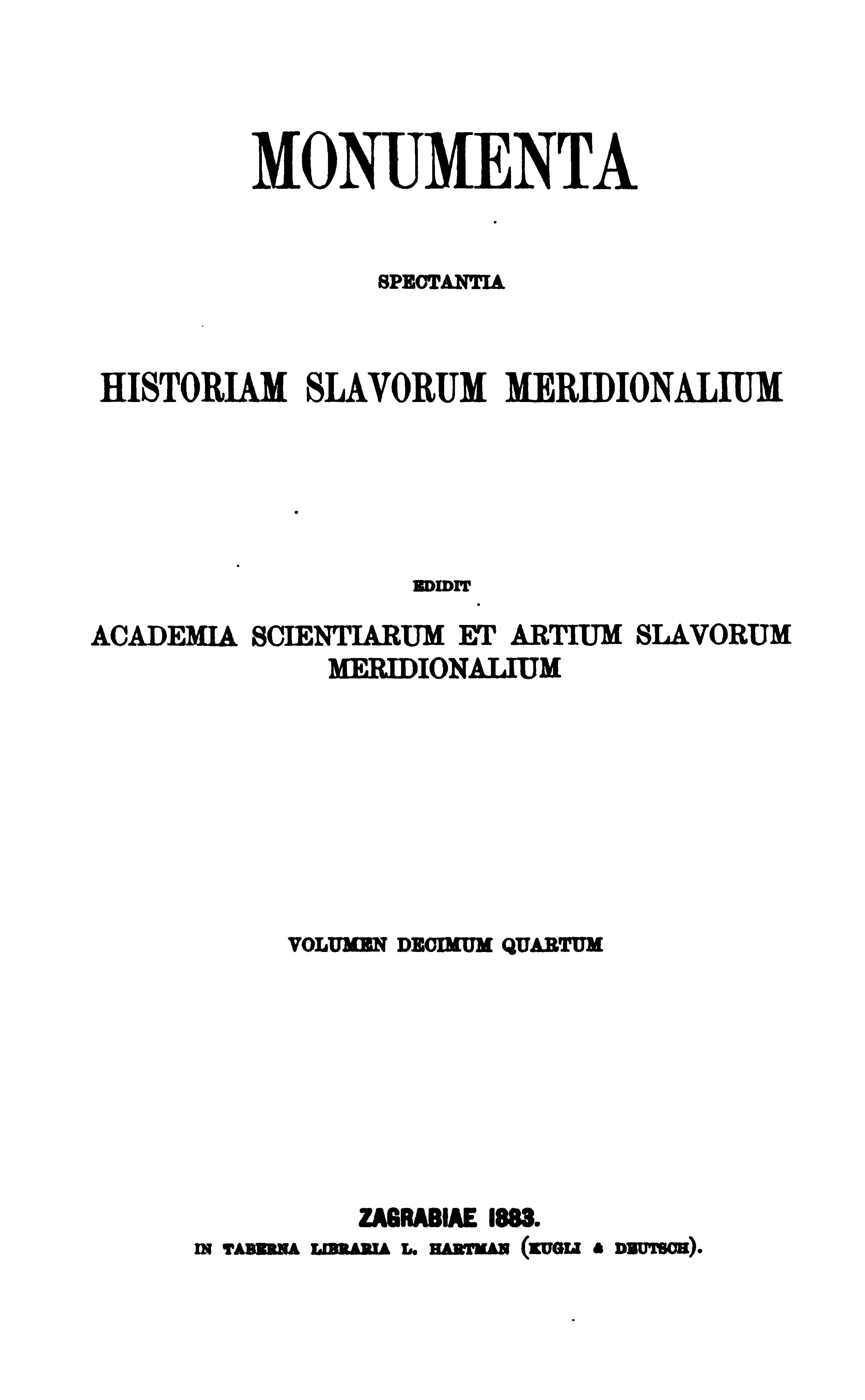 Monumenta spectantia historiam Slavorum meridionalium (1868), vol. 14, part of Monumenta Slavorum. From the Internet Archive.